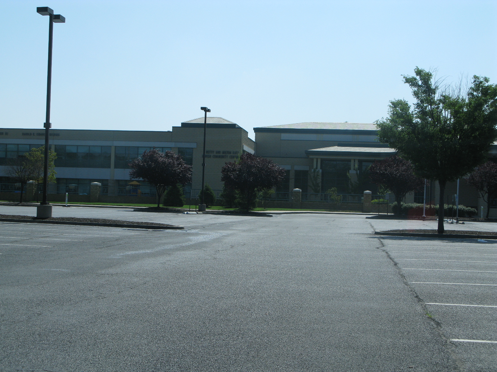 Main entrance to the Katz JCC in Cherry Hill, NJ. This campus was built in 1997.